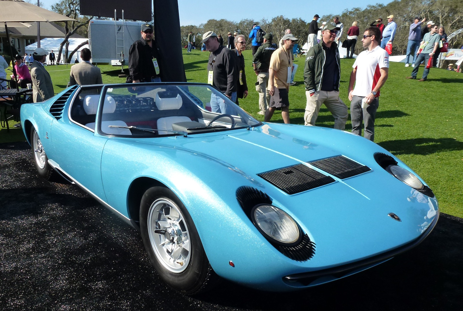 Lamborghini Miura Roadster at Amelia Island in 2013